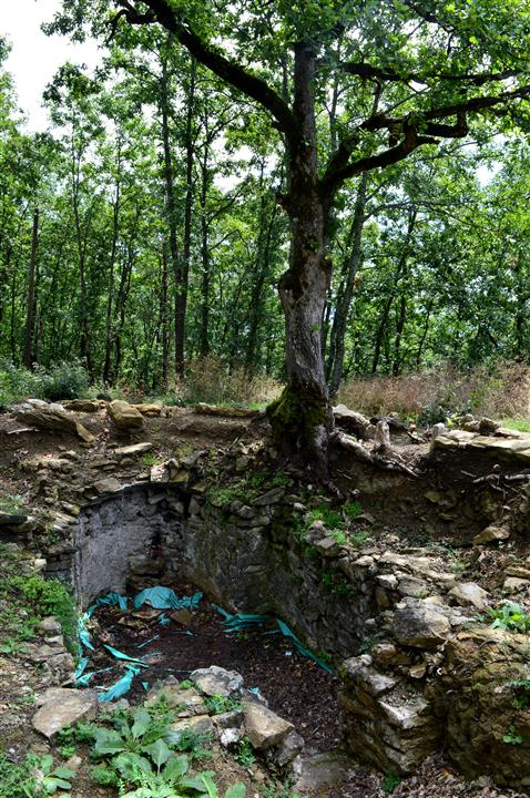 Raska Municipality -Old church in Paklenje